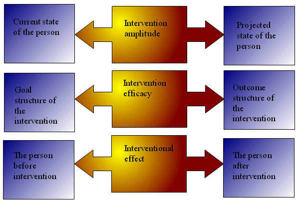 Based on information from Tapu, CS - Hypostatic personality: psychopathology of doing and being made, Premier, 2001.